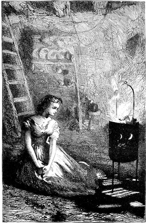 Lizzie Hexam, patiently awaiting the arrival of her father.